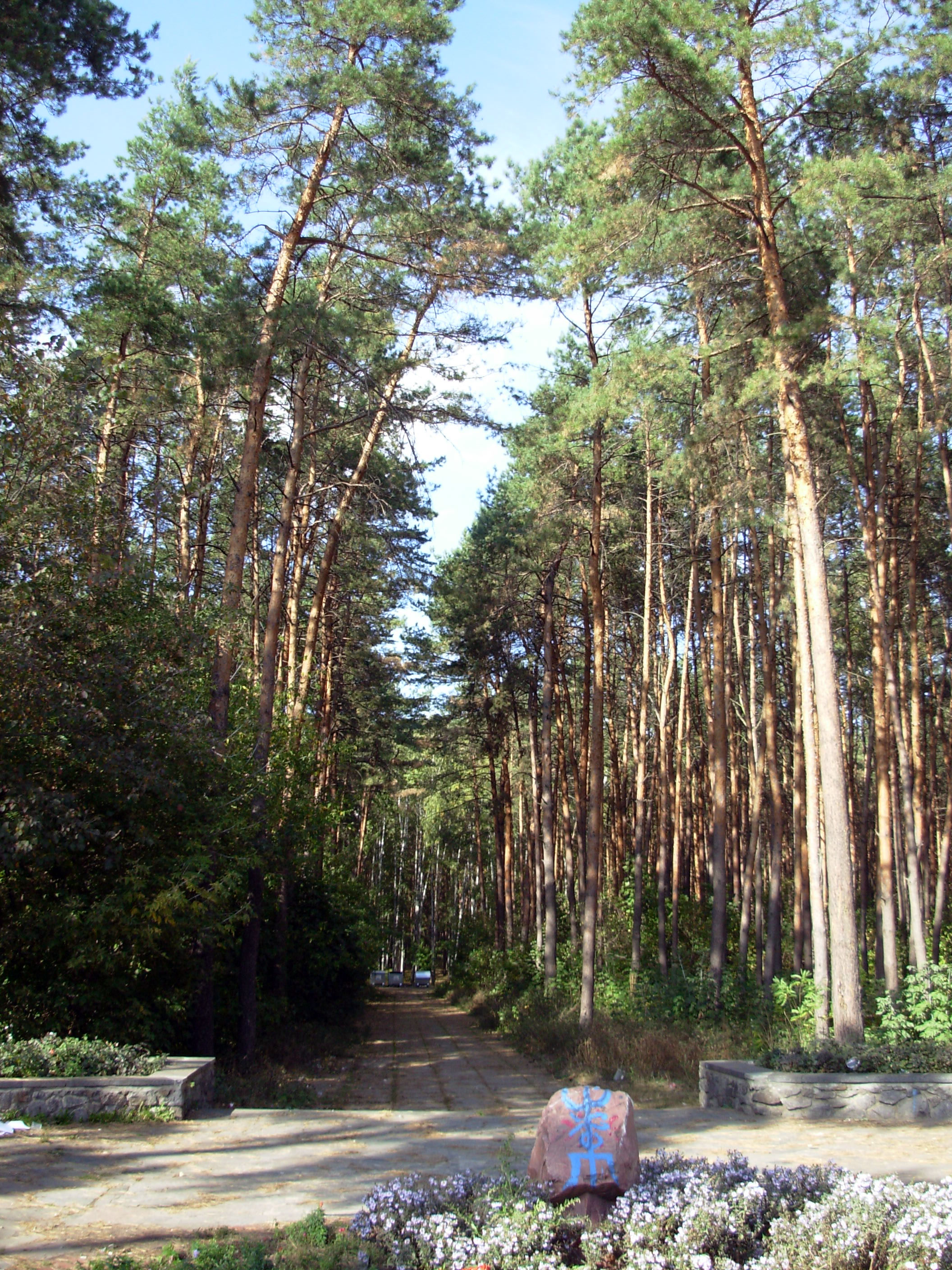 Sovky Park in Kyiv